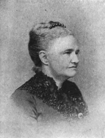 Harriet Mann Miller.